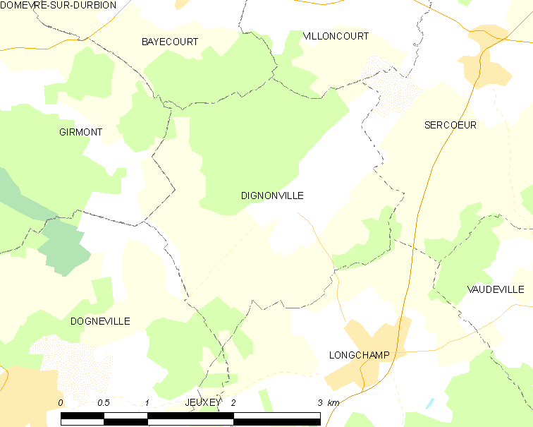 Map of French municipality Dignonville